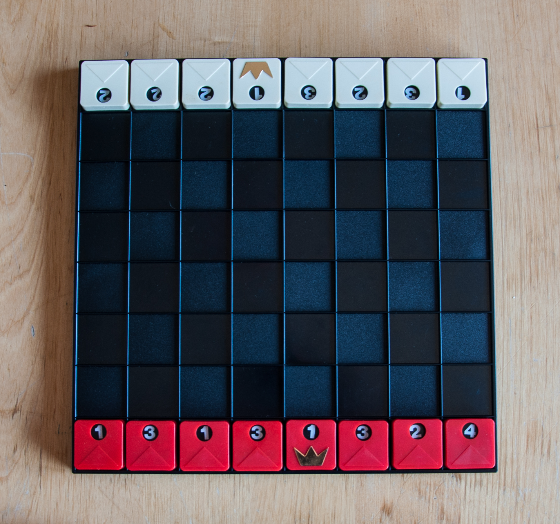 Shogun, playing material